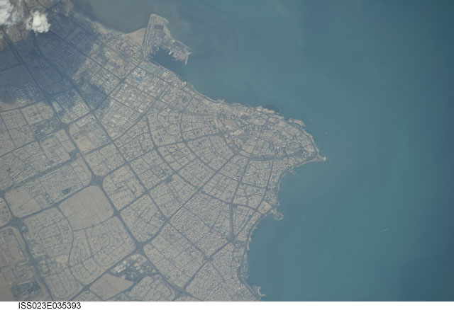 Astronaut Photo of Kuwait City, Kuwait taken from the International Space Station (ISS) during Expedition 23 on May 7, 2010.